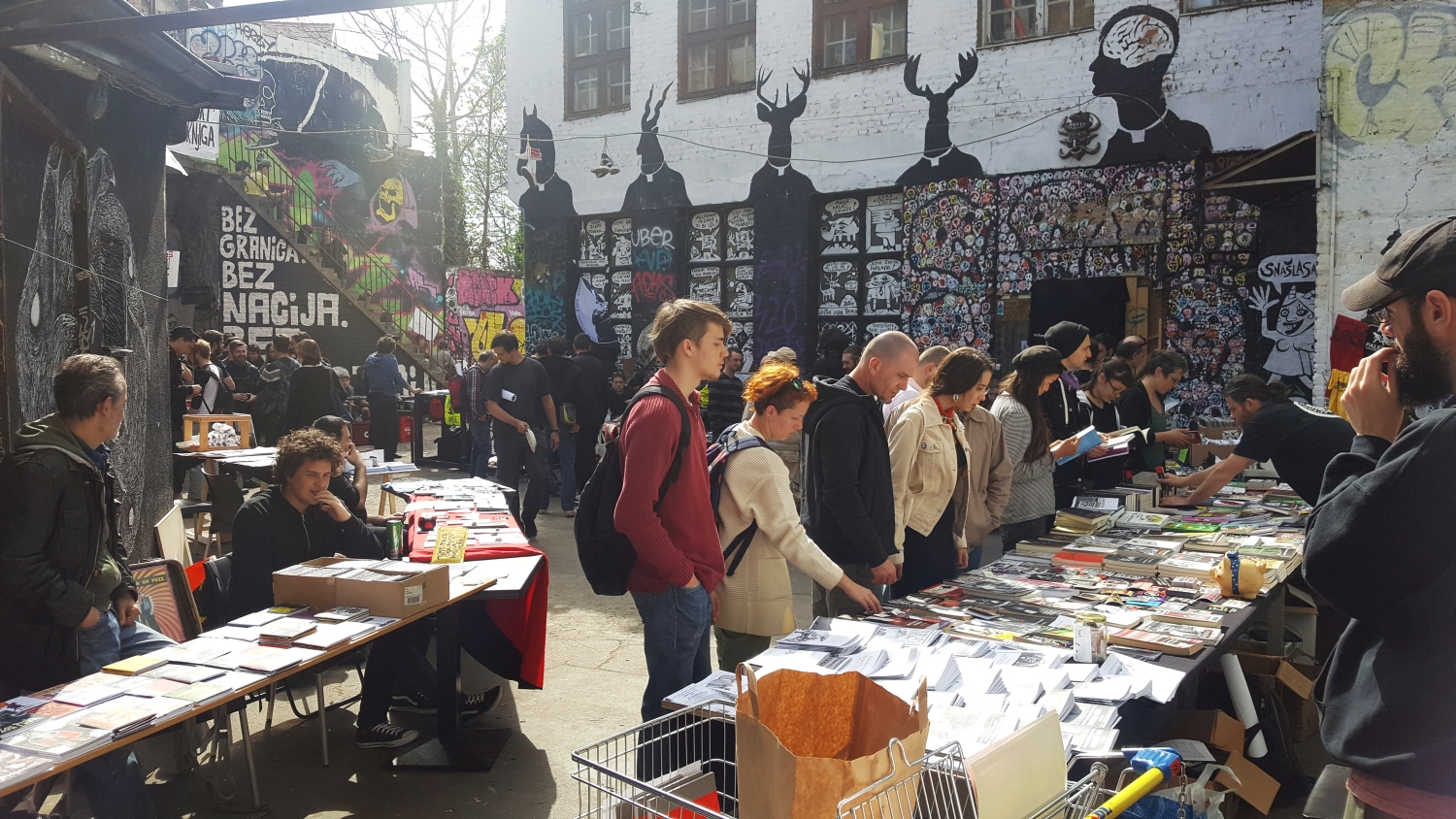 Balkan Anarchist Bookfair, Zagreb April 2017